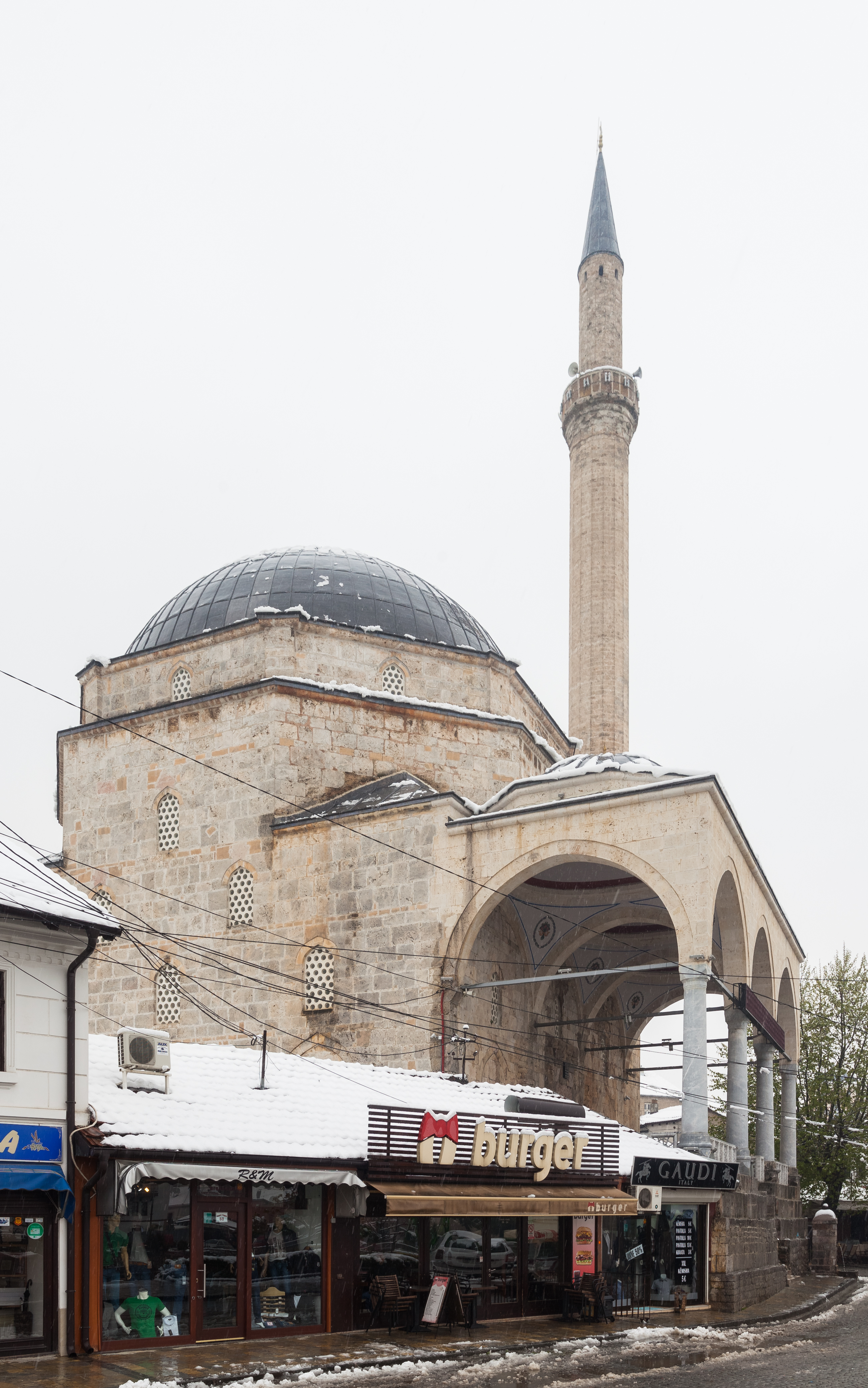 Sinan Pasha mosque, Prizren, Kosovo